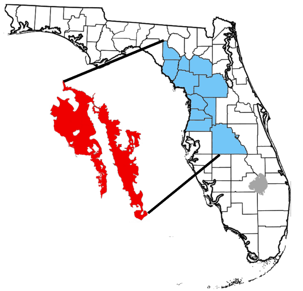 Map showing extent of Ocala Limestone